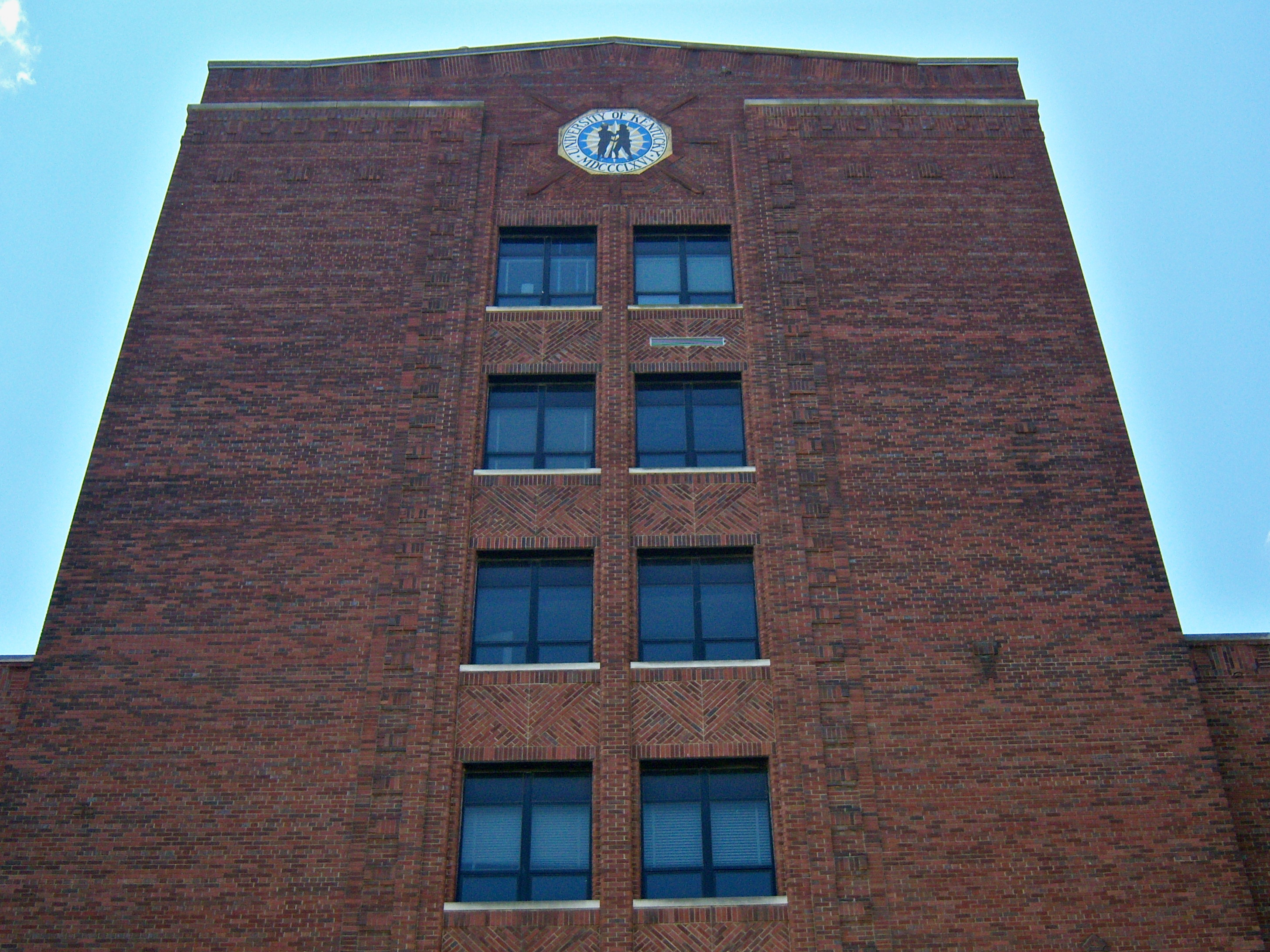 The Funkhouser Building located on the University of Kentuckys central campus.